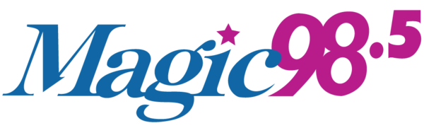 Former logo of the radio station WOMG used between 2008 and 2014